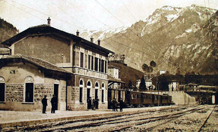 Piazza Brembana railway station